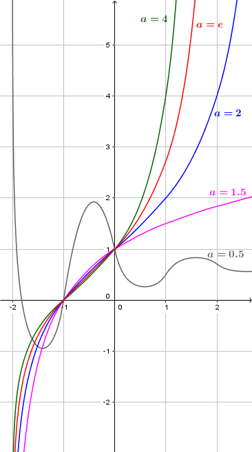 a^^x for a = 4, e, 2, 1.5, 0.5 using quadratic approximation.